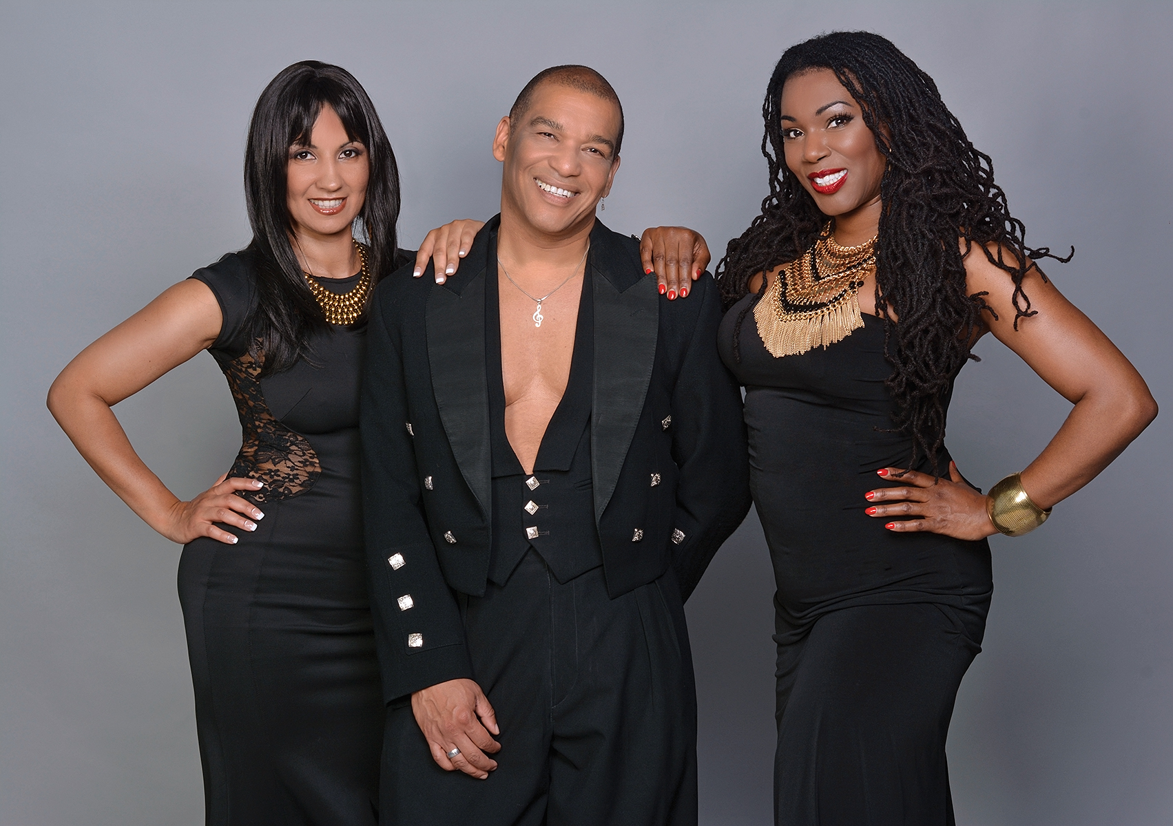 Disco, Soul, Funk, Pop, Soulful House and Rare Groove vocal trio originally from New York City now based in the UK.